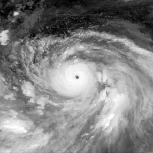 Typhoon Hope of 1979 at peak strength.